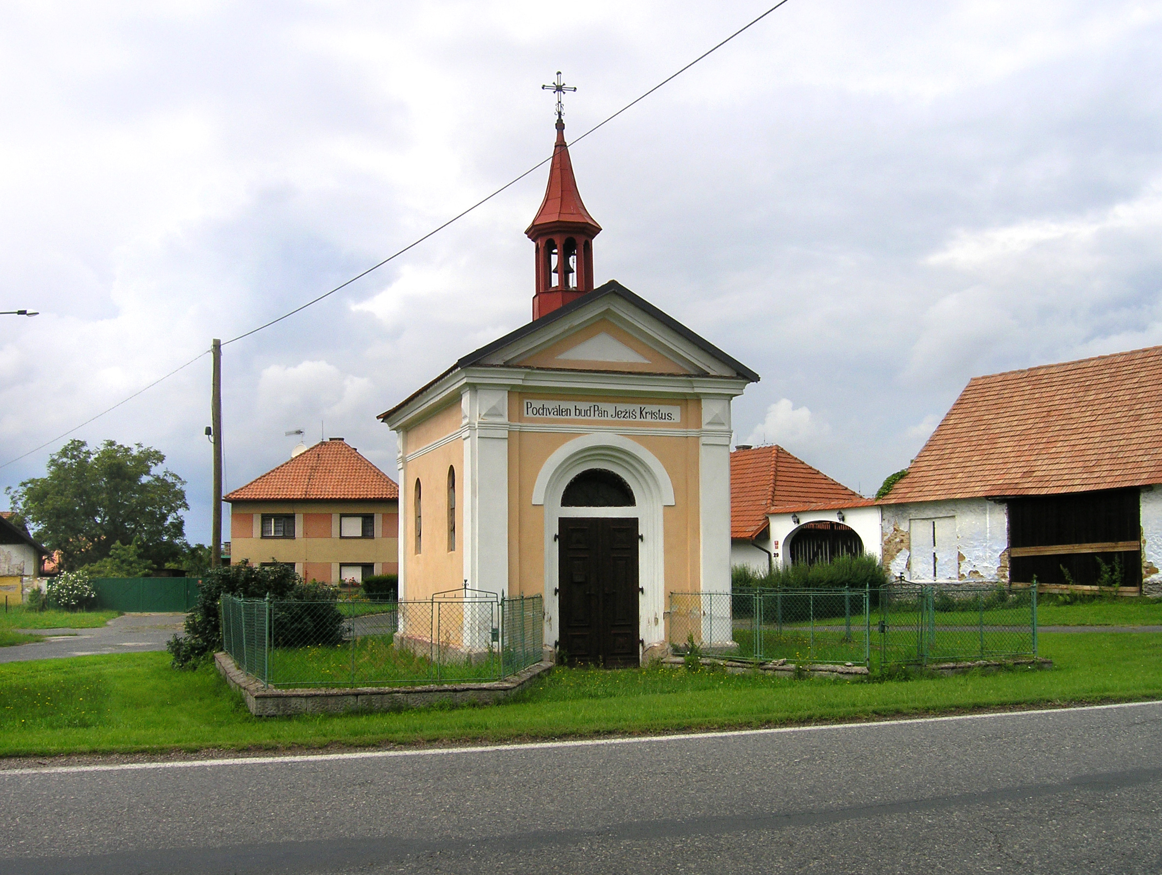 Chapel in Horušice, Czech Republic